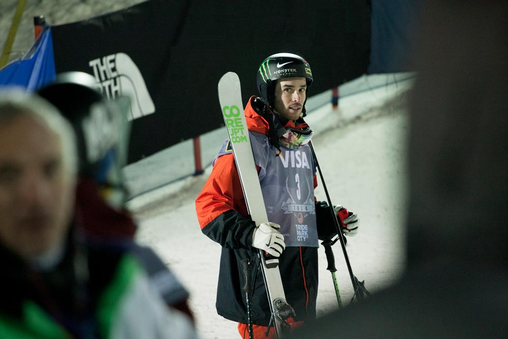 Kevin ROLLAND waiting for the results : he'll win the final of the Park City Grand Prix !